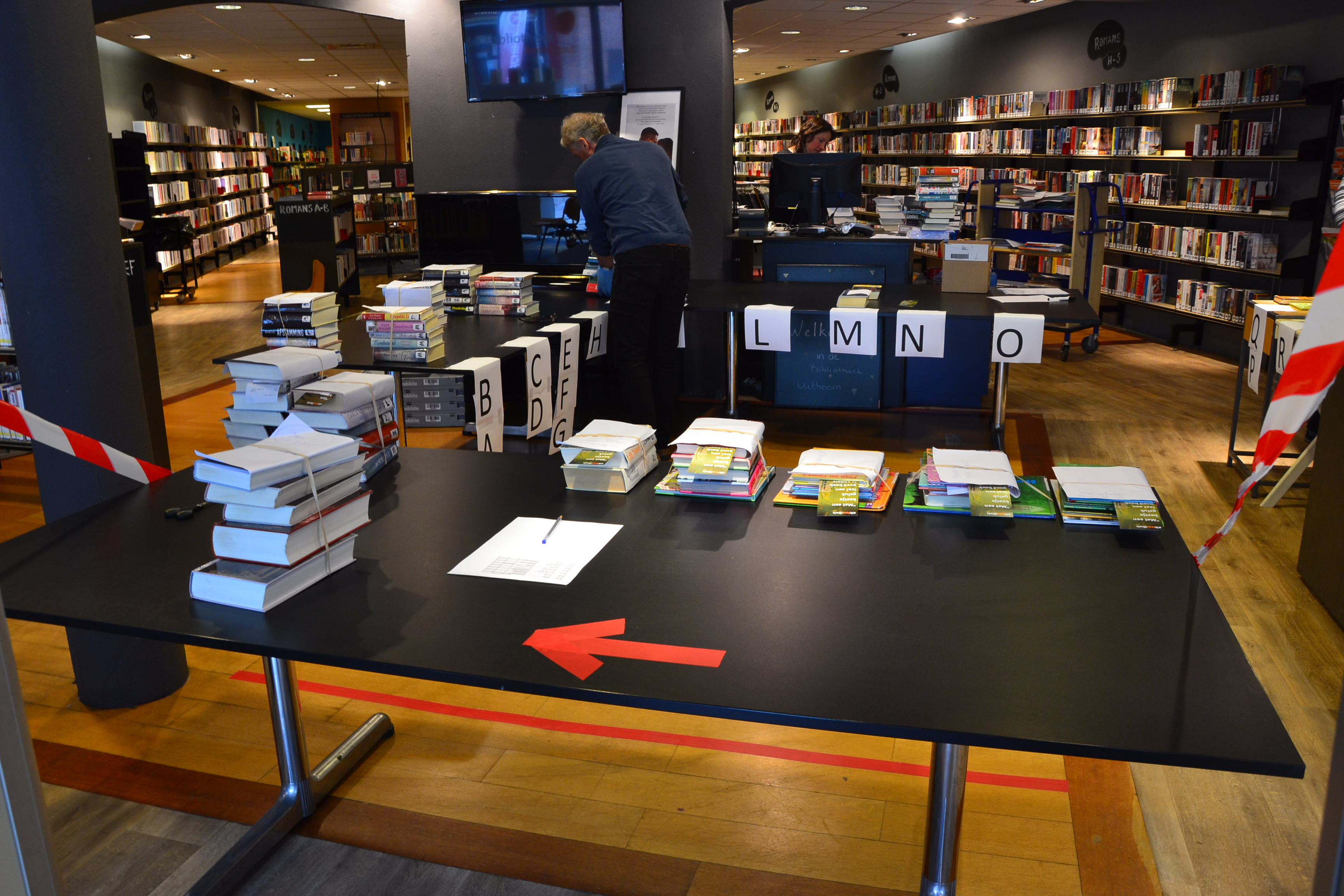 "Take away"-service in a Dutch public library during the Covid-19 pandemic. Libraries were closed due to the pandemic, but patrons could request sets of books in specified genres. Librarians selected a number of books, to be collected by the patrons.